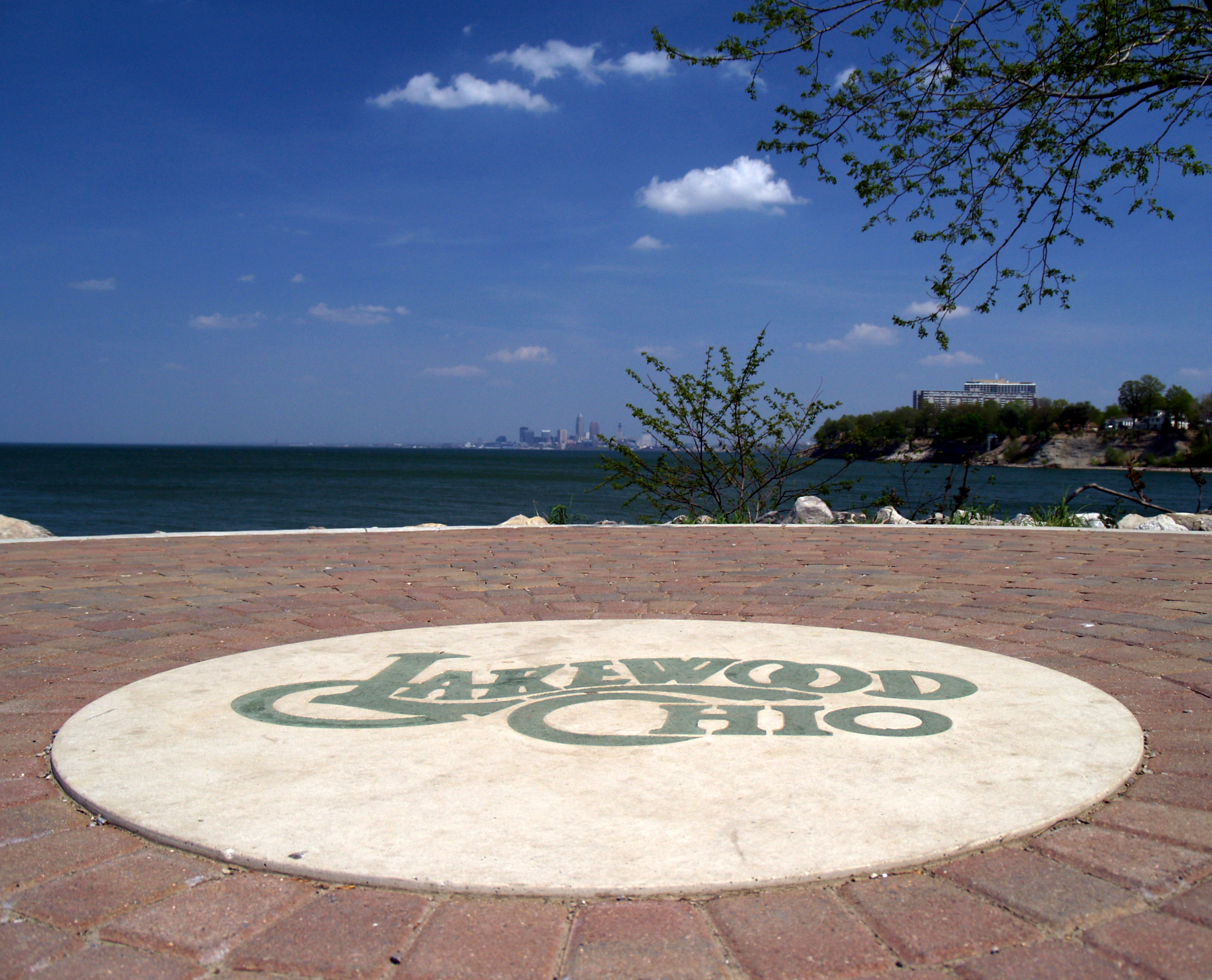 Lakewood Park with a view of downtown Cleveland, OH